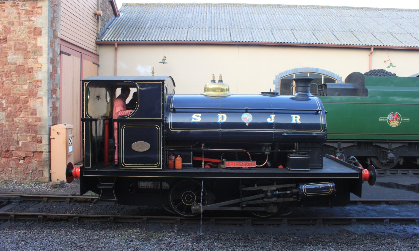 The Somerset and Dorset Railway Trust's Peckett 0-4-0ST Kilmersdon outside Minehead engine shed while on loan to operate diver taster sessions; it is usually found at the Trust's museum at Washford.